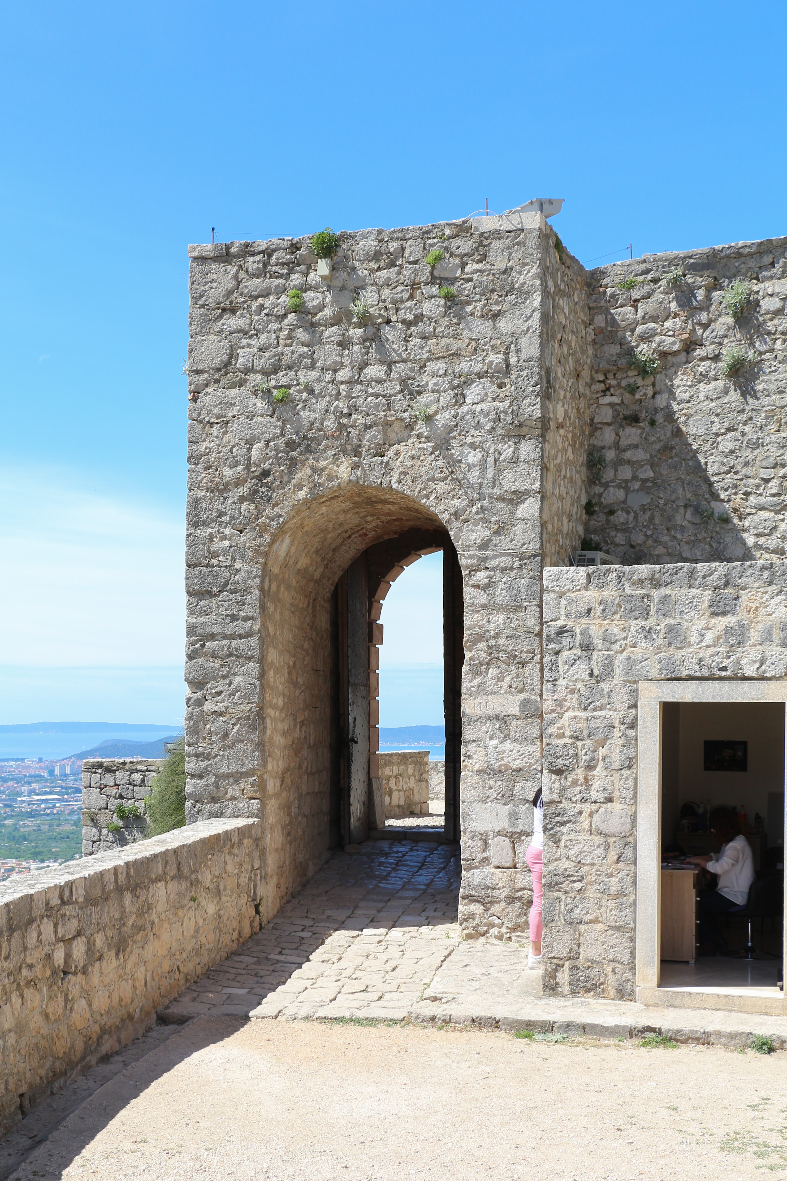 First gate of Klis Fortress, Croatia